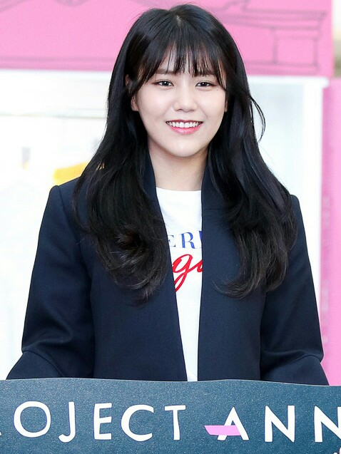 Shin Hye-jeong at 1st Fashion Streaming Service 'Project Anne' Styling Class